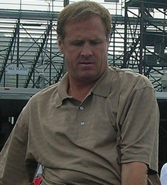 Rusty Wallace gets out of the crown car he eventually took to victory lane. Once the track gates were opened to the public, the crowd around Wallace became more of a mob as eager fans stood around with photos, scale model cars, and of course Miller Lite cans, waiting for Wallace's autograph.